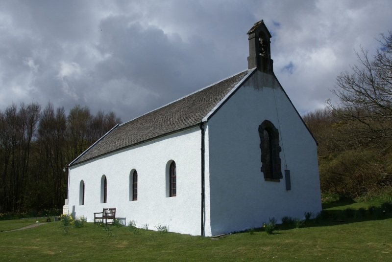 Craighouse Parish Church, Craighouse, Isle of Jura, Scotland.